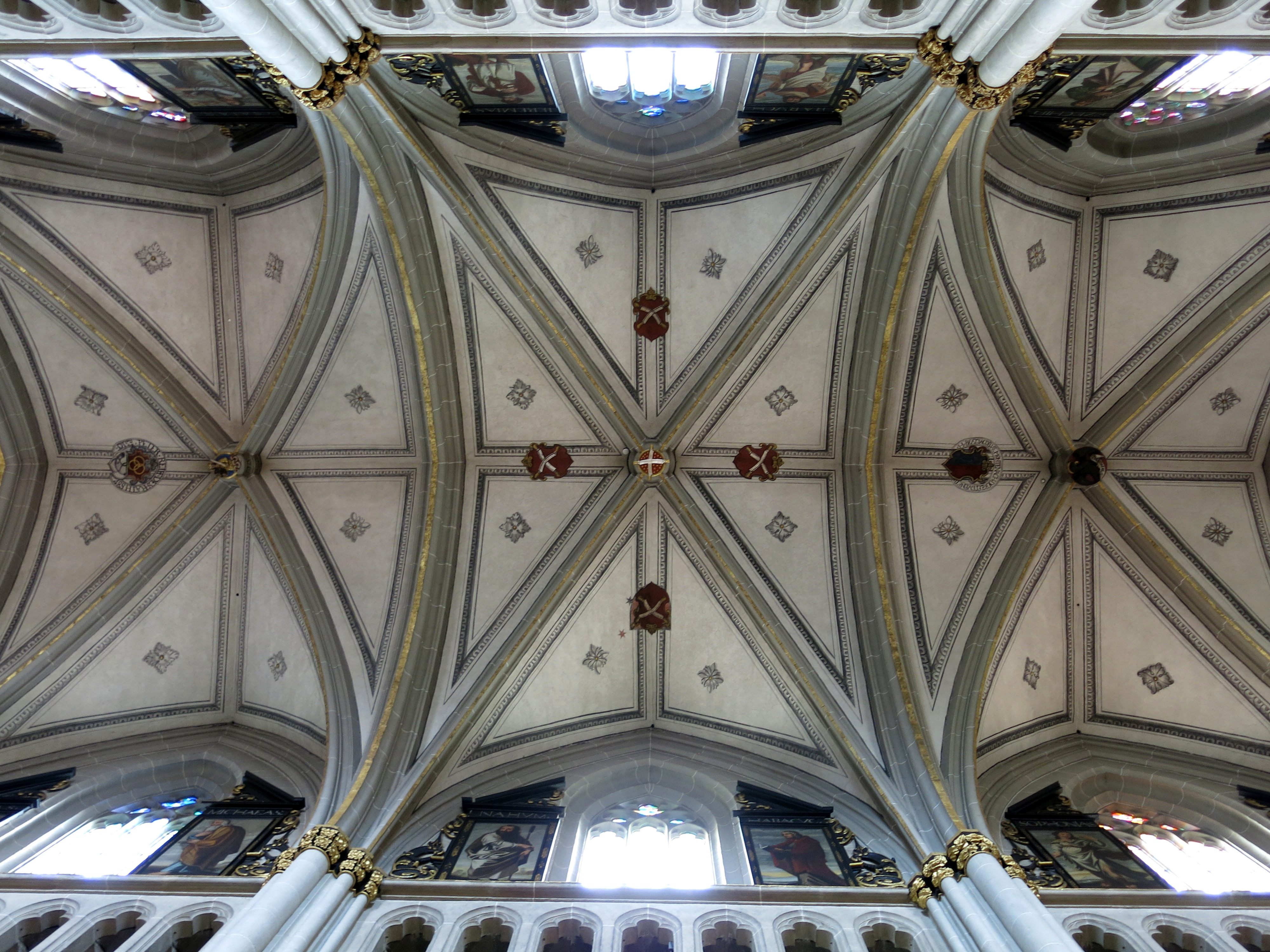 Fribourg, Switzerland